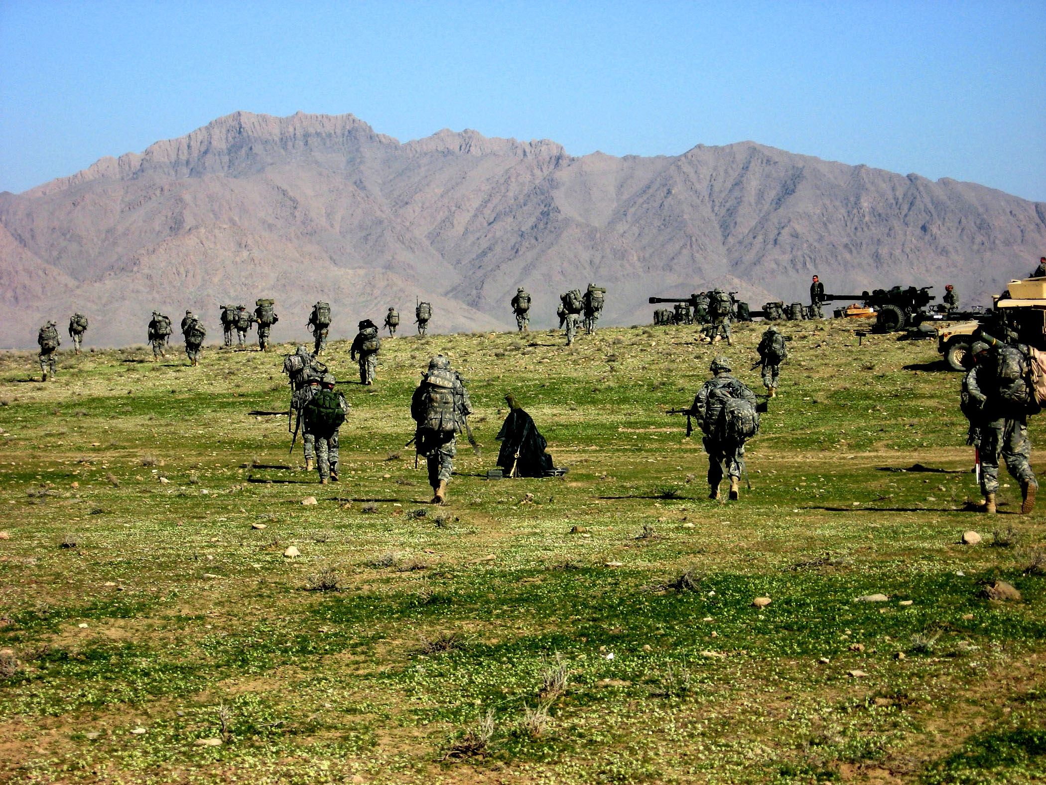 Paratroopers from Company B, 1st Battalion, 508th Parachute Infantry Regiment, 4th Brigade Combat Team, 82nd Airborne Division patrol the Ghorak Valley of Helmand Province in southern Afghanistan during Operation Achilles, March 6.